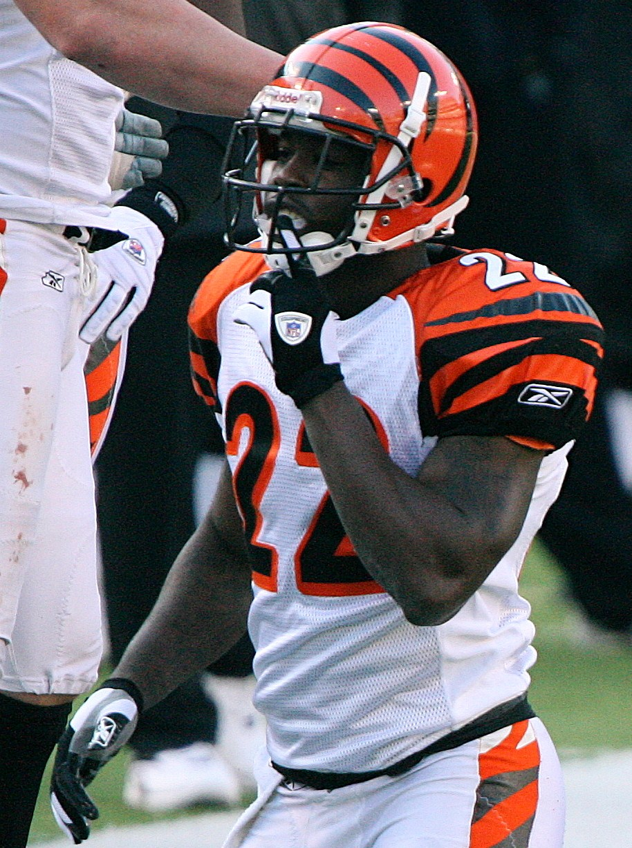 Johnathan Joseph (left) and Todd Heap (right)